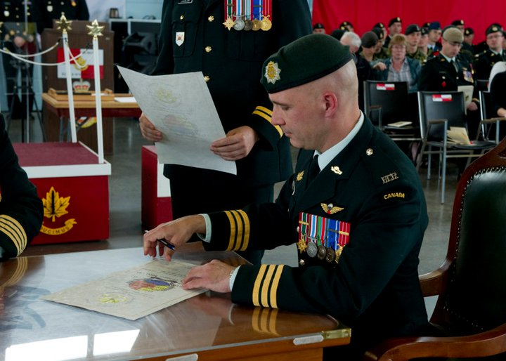 At the time, Lieutenant Colonel Craig Aitchison taking command of the combat training centre in gagetown NB